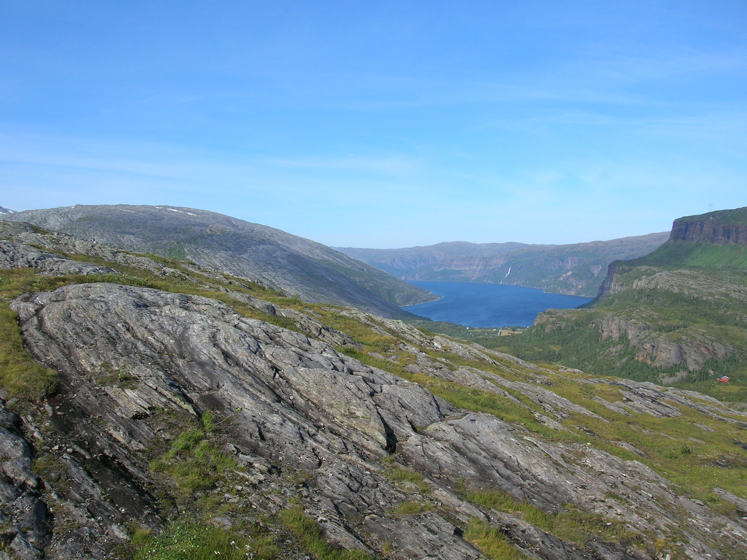 The fjord Meljorden in Rødøy municipality, seen from mountains close to the border of Rana municipality, in the county of Nordland, Norway, Photo 1 September, 2005 with a Nikon Coolpix 5600 5,1 Megapixel camera.